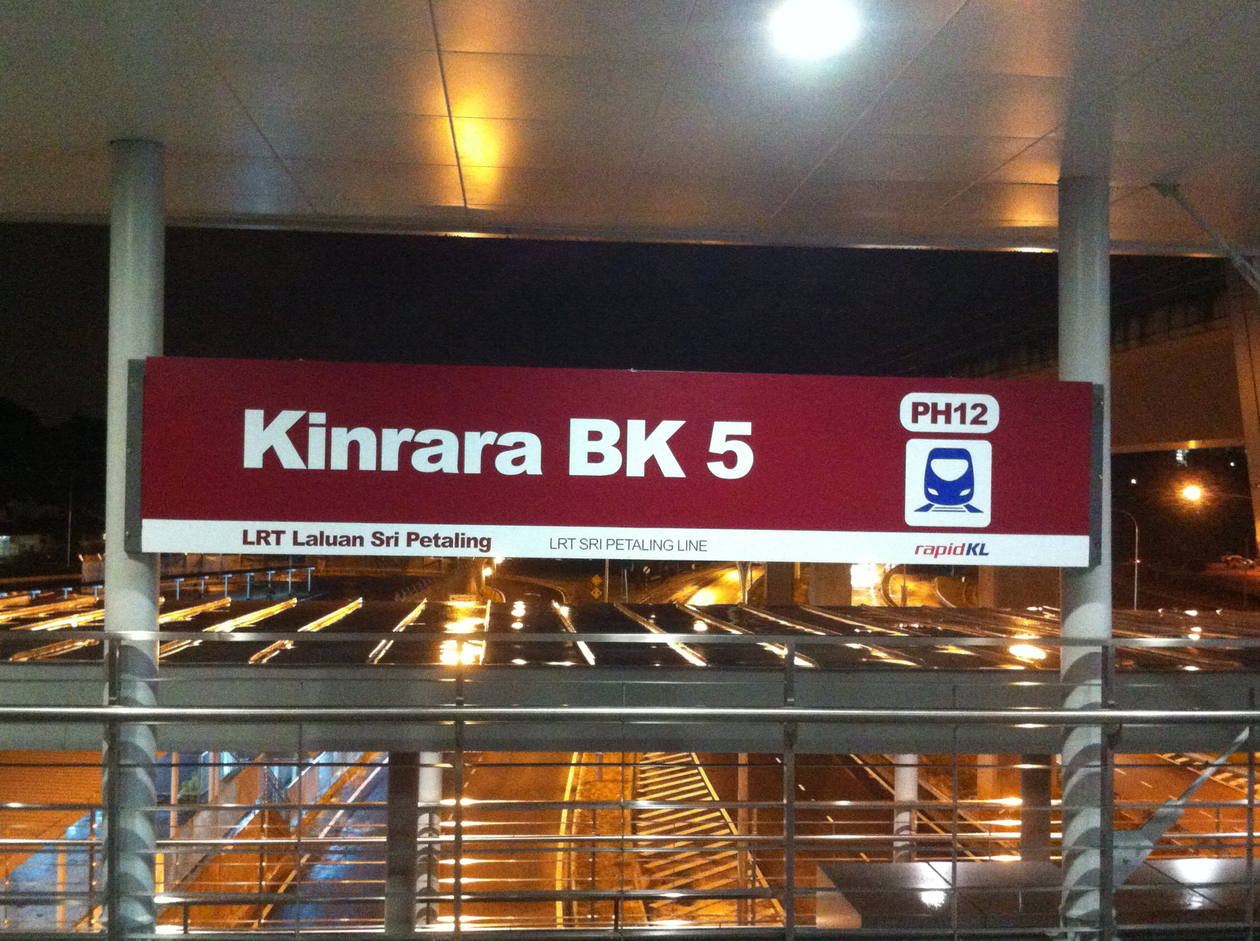 Station entrance signage at Kinrara BK5 LRT station